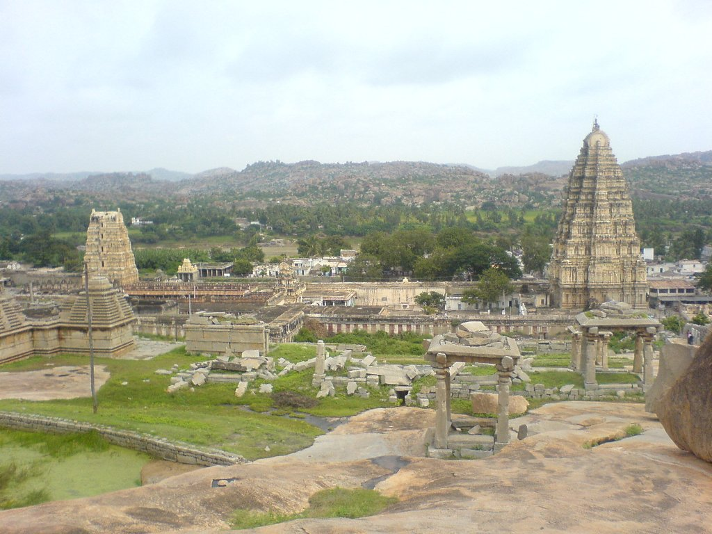 Ancient Hampi City Center